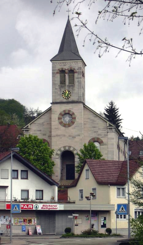 Church in Spiegelberg, Baden-Württemberg, Germany